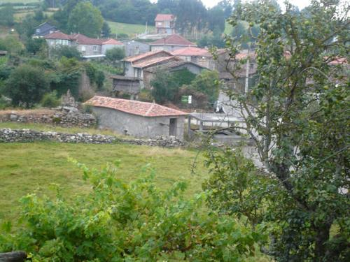 vacas